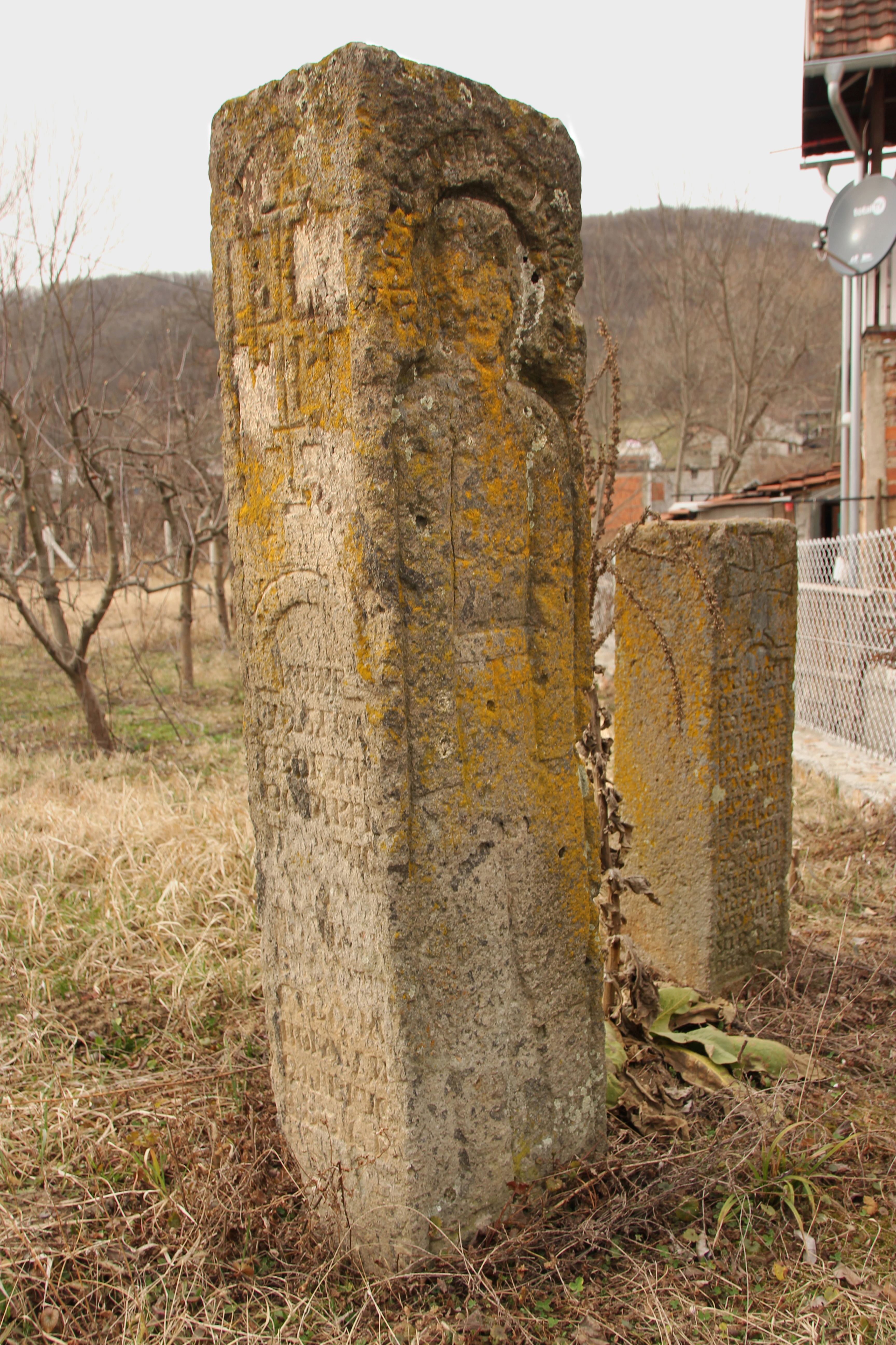 Roadside tombstones erected in memory of Krsta Topalovic and Ilija Stevanovic. They are located in the village Brdjani (municipality of Gornji Milanovac), Serbia.